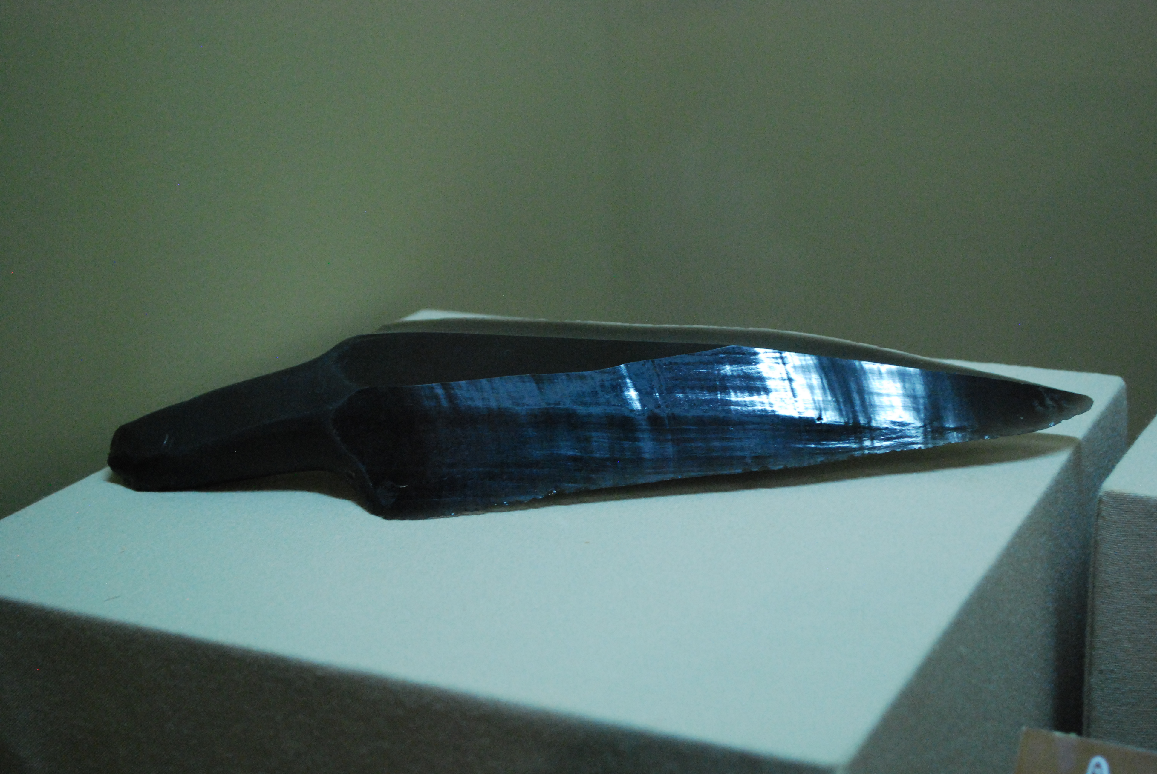 Obsidian blade grave offering from Chiapa de Corzo on display at the Regional Museum in Tuxtla Gutierrez, Chiapas, Mexico